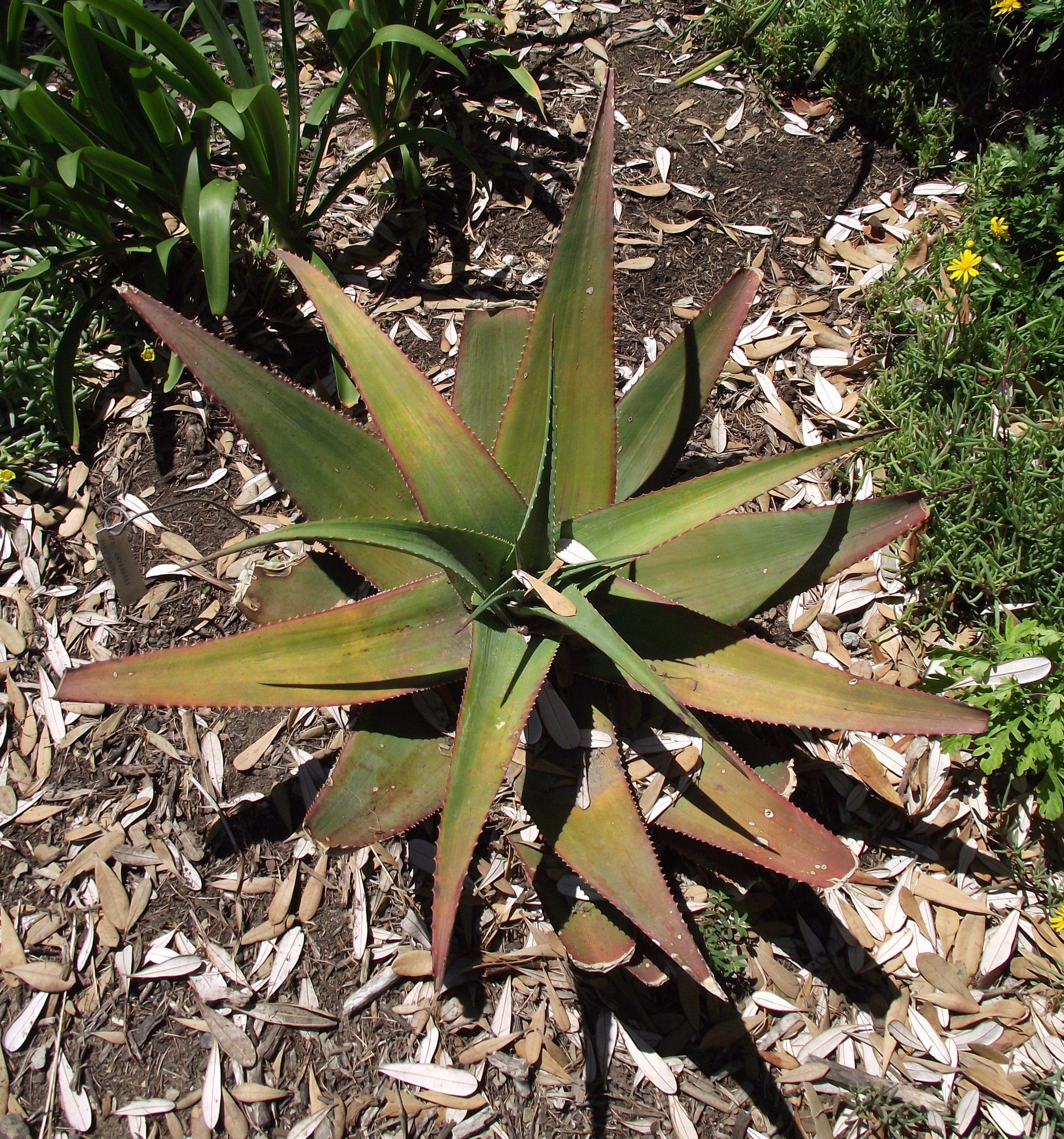 Aloe chabaudii at the San Diego Botanic Garden, Encinitas, California, USA. Identified by sign.